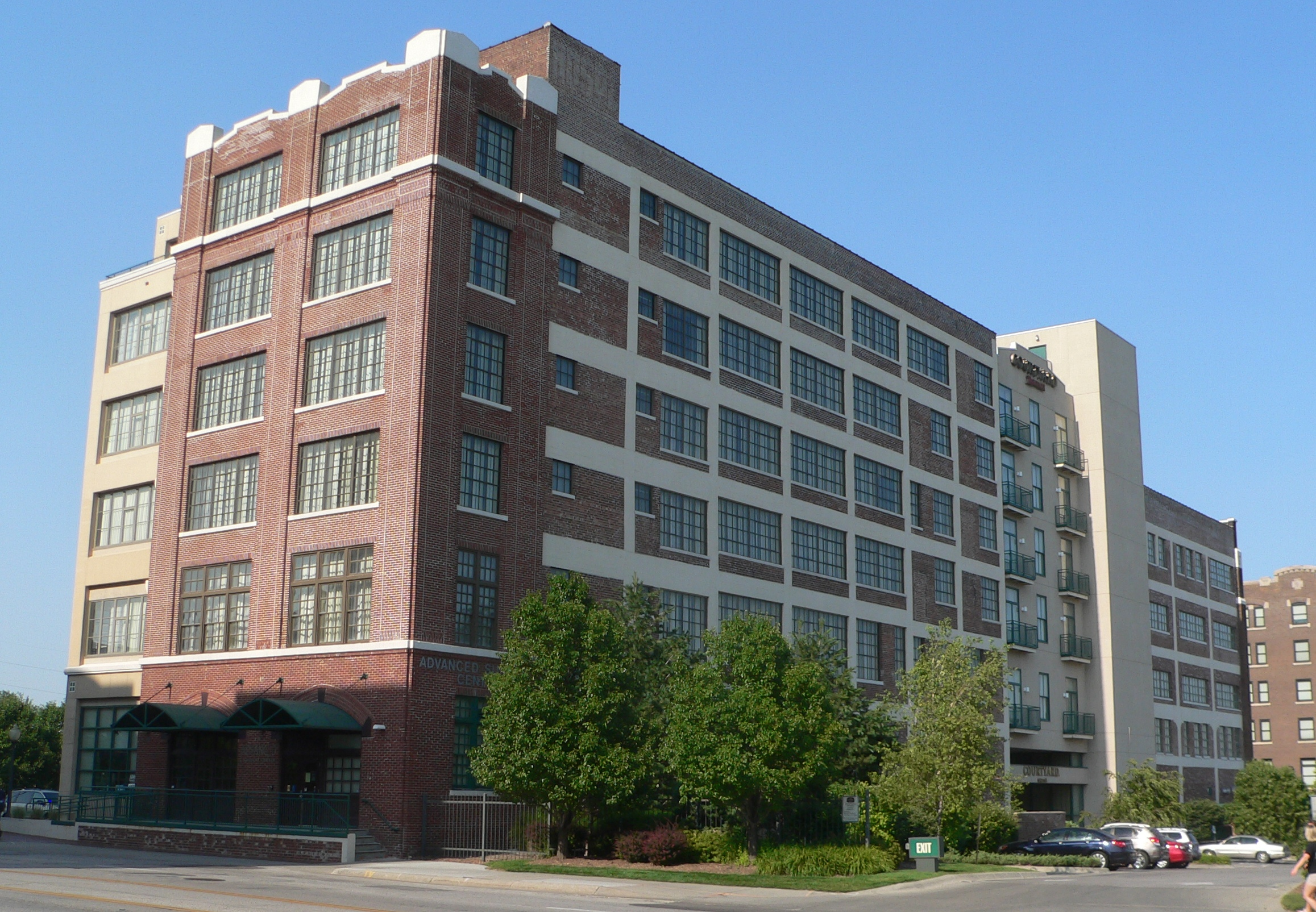 Omaha Downtown Courtyard Marriott hotel, located at 101 S. 10th Street in Omaha, Nebraska. The red brick portion in the foreground is the former Anton Hopse Music Warehouse; it also houses Advanced Surgery Center.